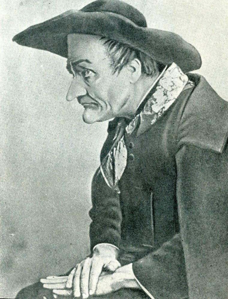 Russian bass, Feodor Chaliapin (1873 - 1938)